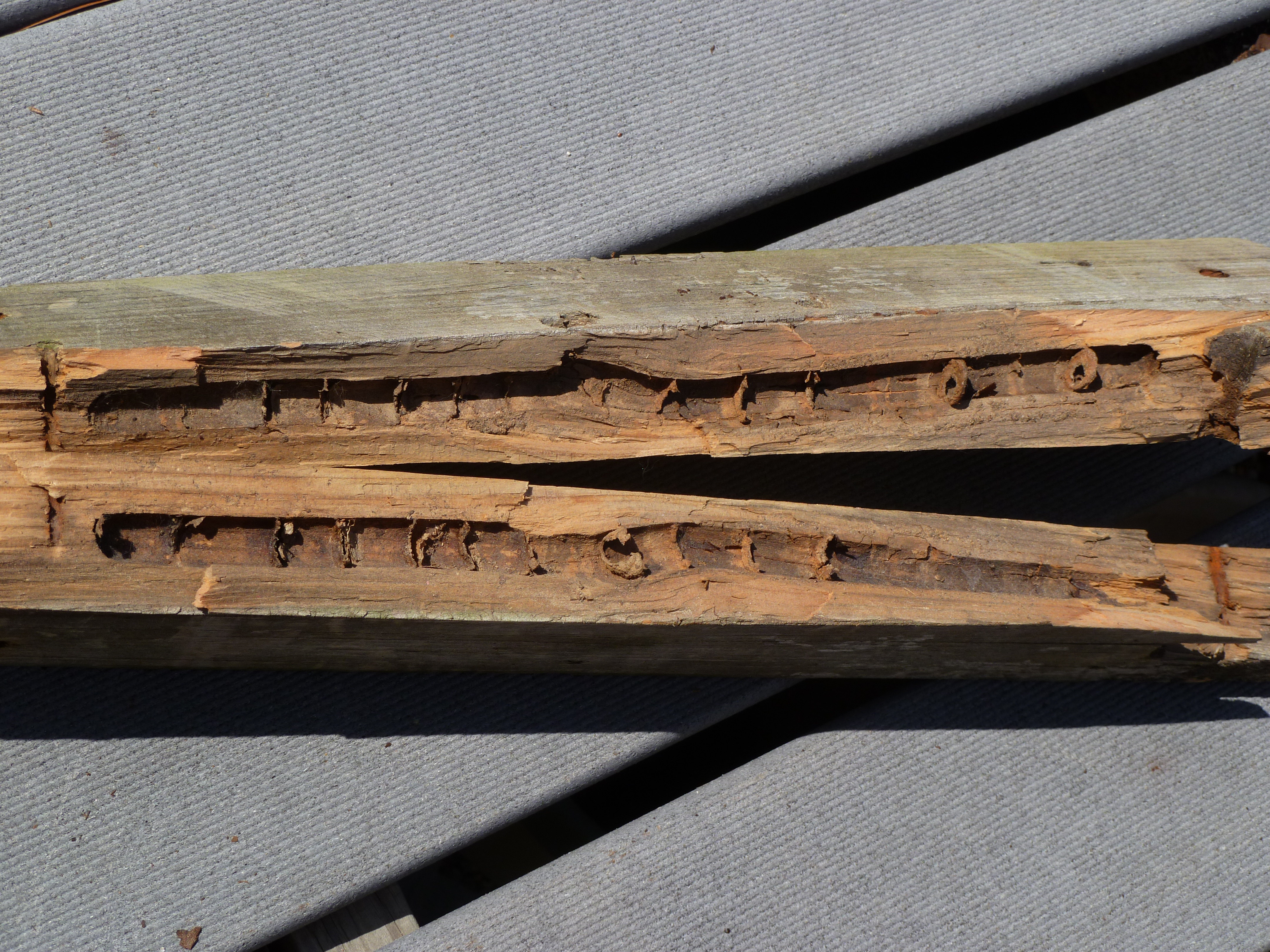 Example of a Carpenter bee nest (gallery) in a split piece of 2X4 wood.